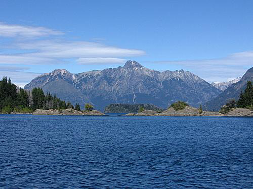 The Anchorena Bay, in the center of the Victorian Island, Lago Nahuel Huapi, Argentina.